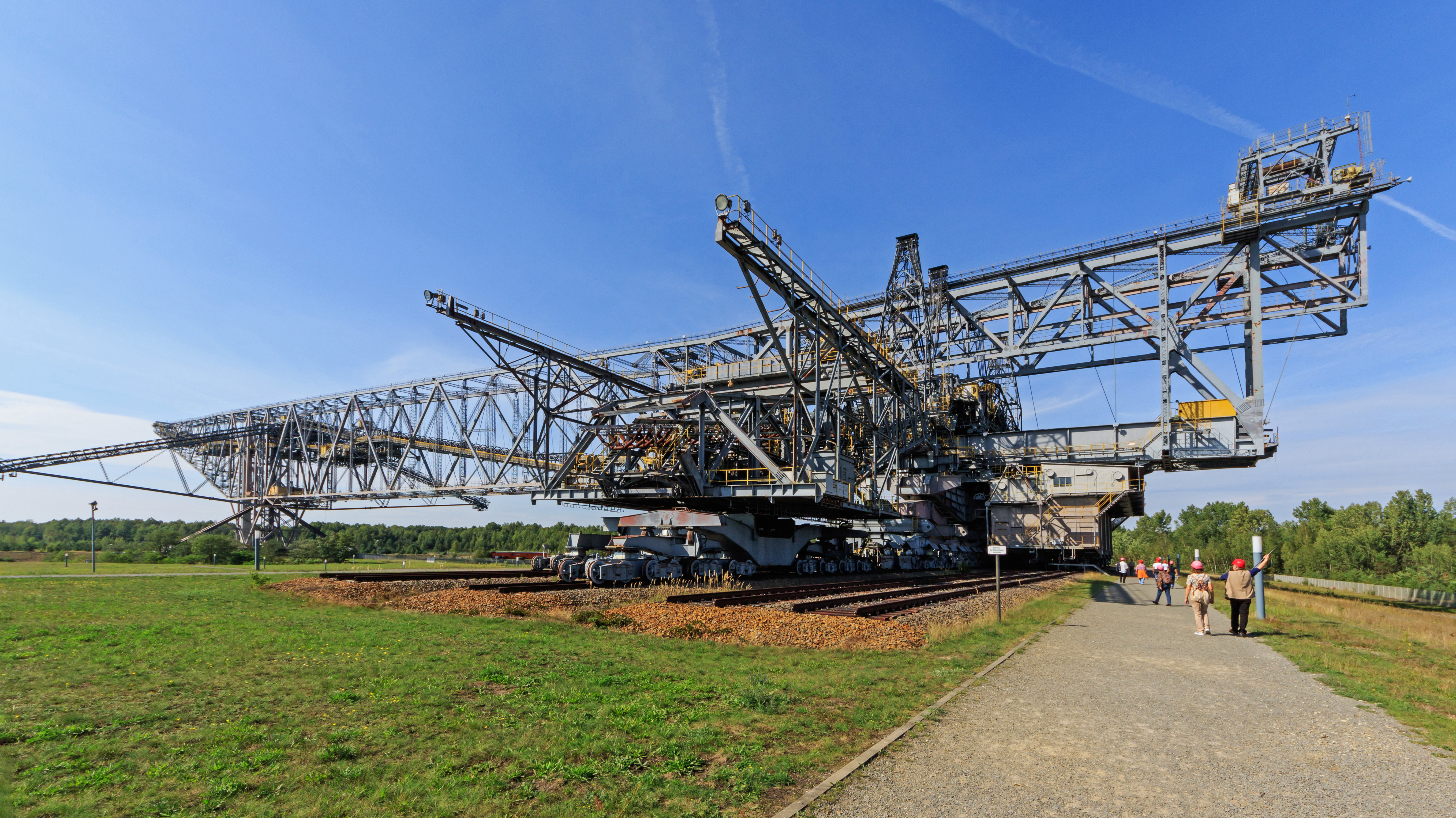 The Overburden Conveyor Bridge F60 in Lichterfeld (EE), Brandenburg, Germany